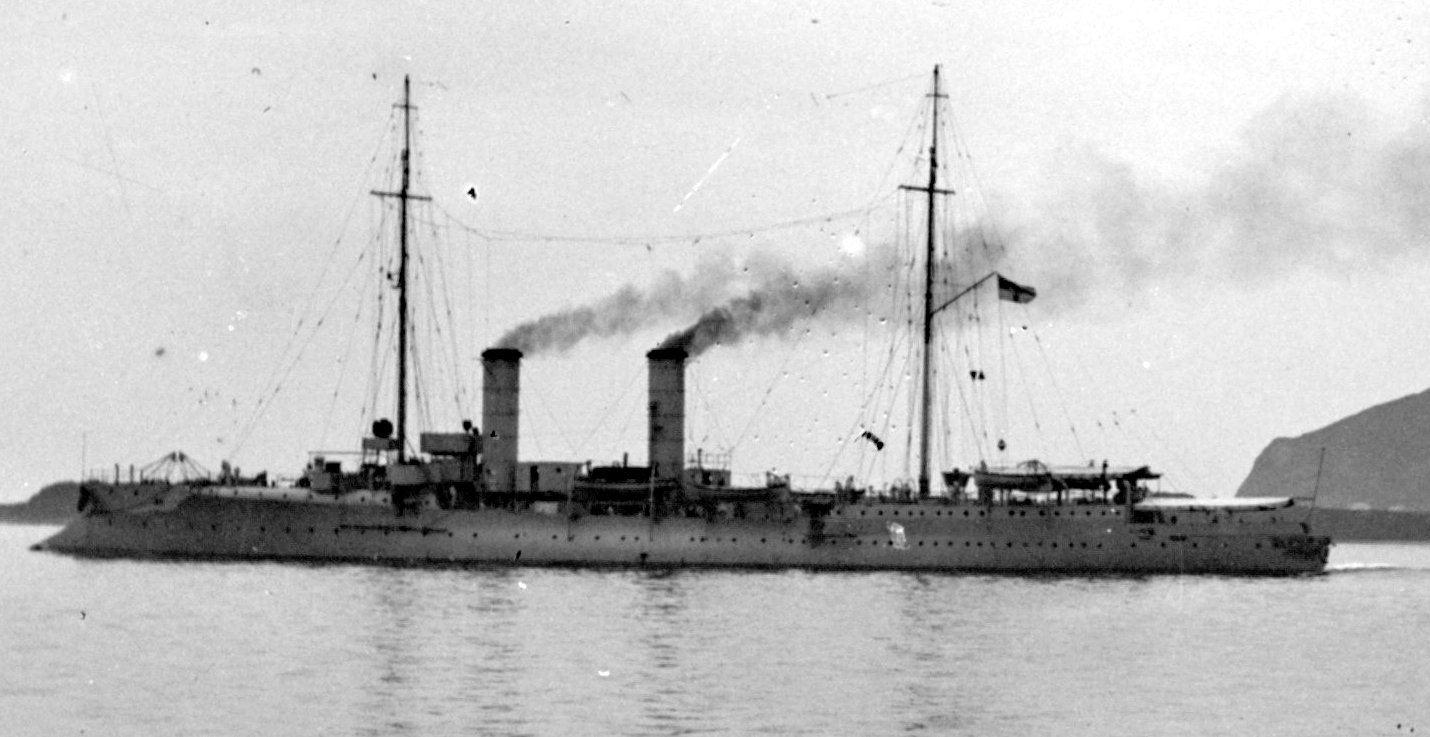 SMS Hela passing Grønningen lighthouse, Kristiansand.